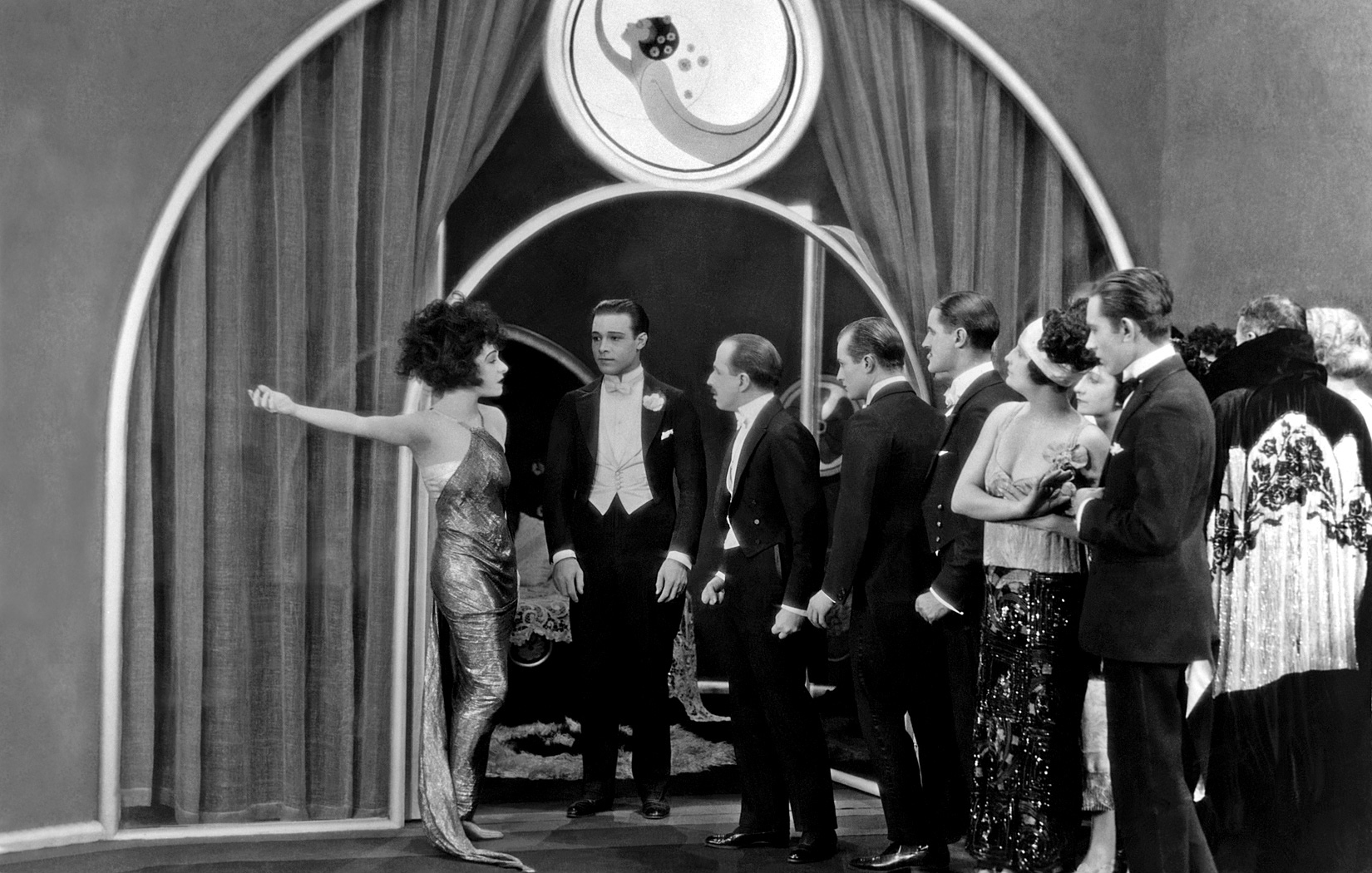 Alla Nazimova and Rudolph Valentino in a still from the 1921 film Camille.